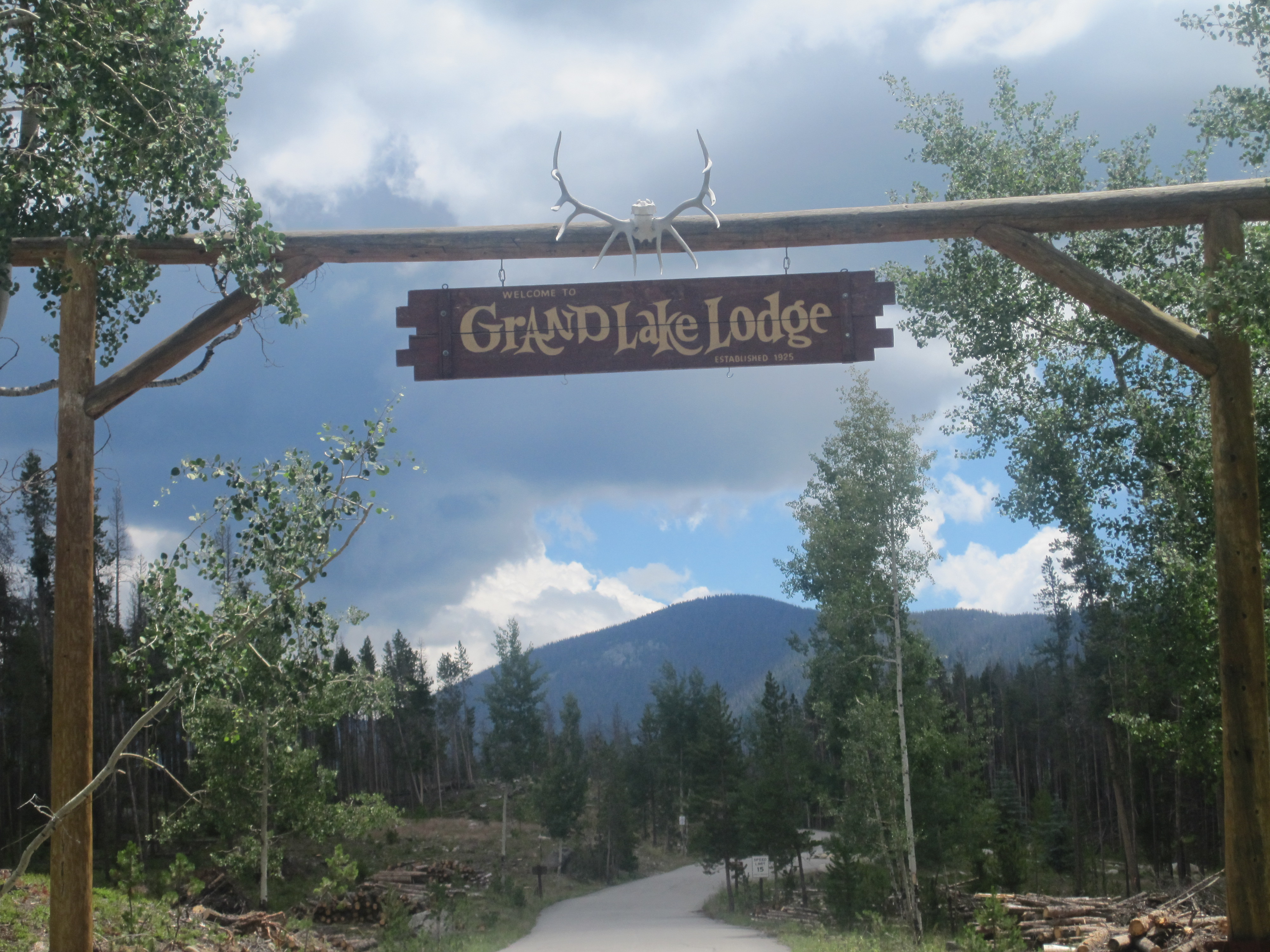 I took photo with Canon camera in Grand Lake, CO.